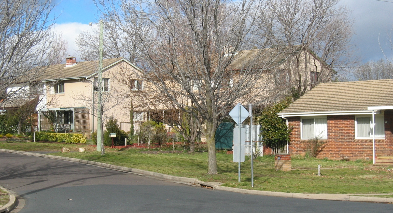 Houses in Dickson, Australian Capital Territory, viewed from Morphett Street. Photo taken by User:Adz on 11 Aug 2005.